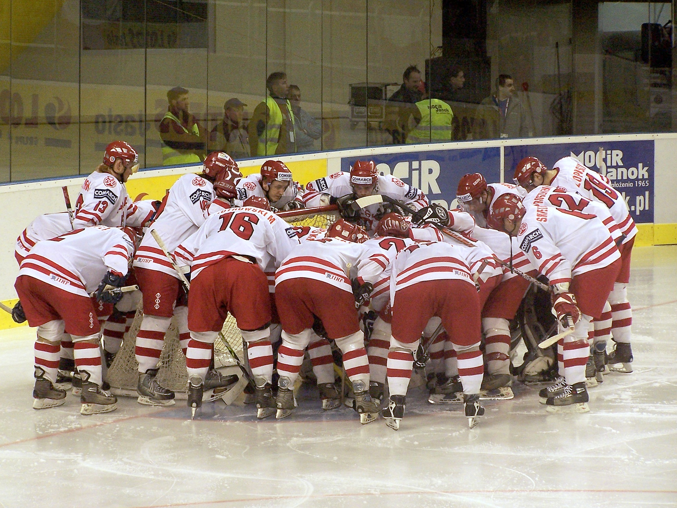 Polish national team Arena Sanok April 12, 2006 (before match vs. Hungary)